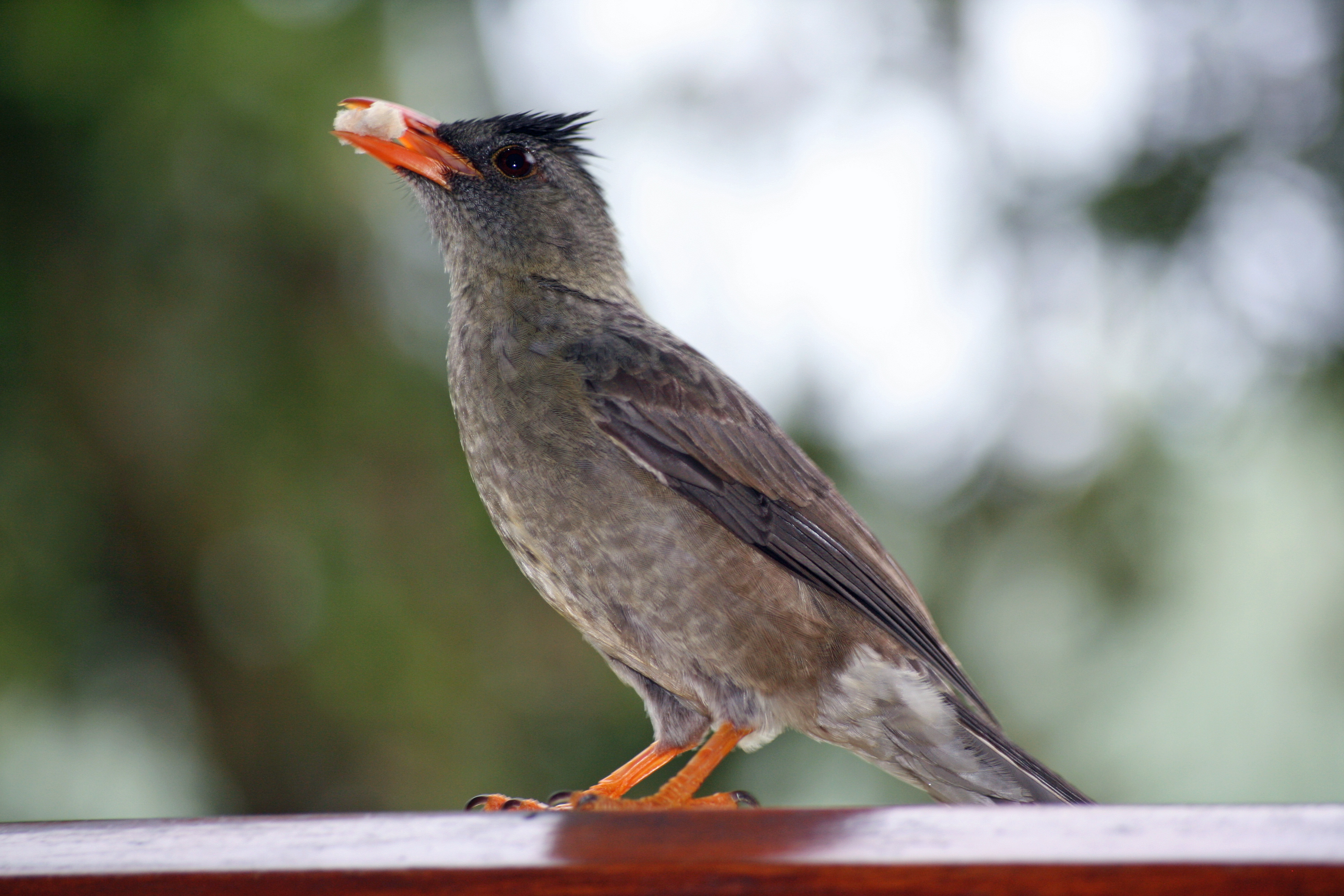 Hypsipetes crassirostriss ("Seychelles Bulbul")) on Praslin island on the Seychelles